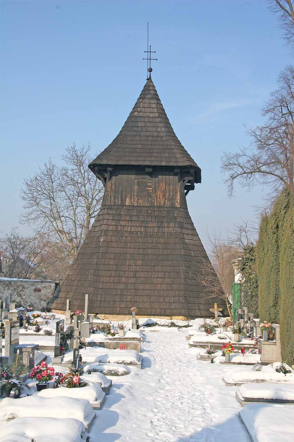 Wooden bell tower from 16th century in Semín, Pardubice District, Czech Republic